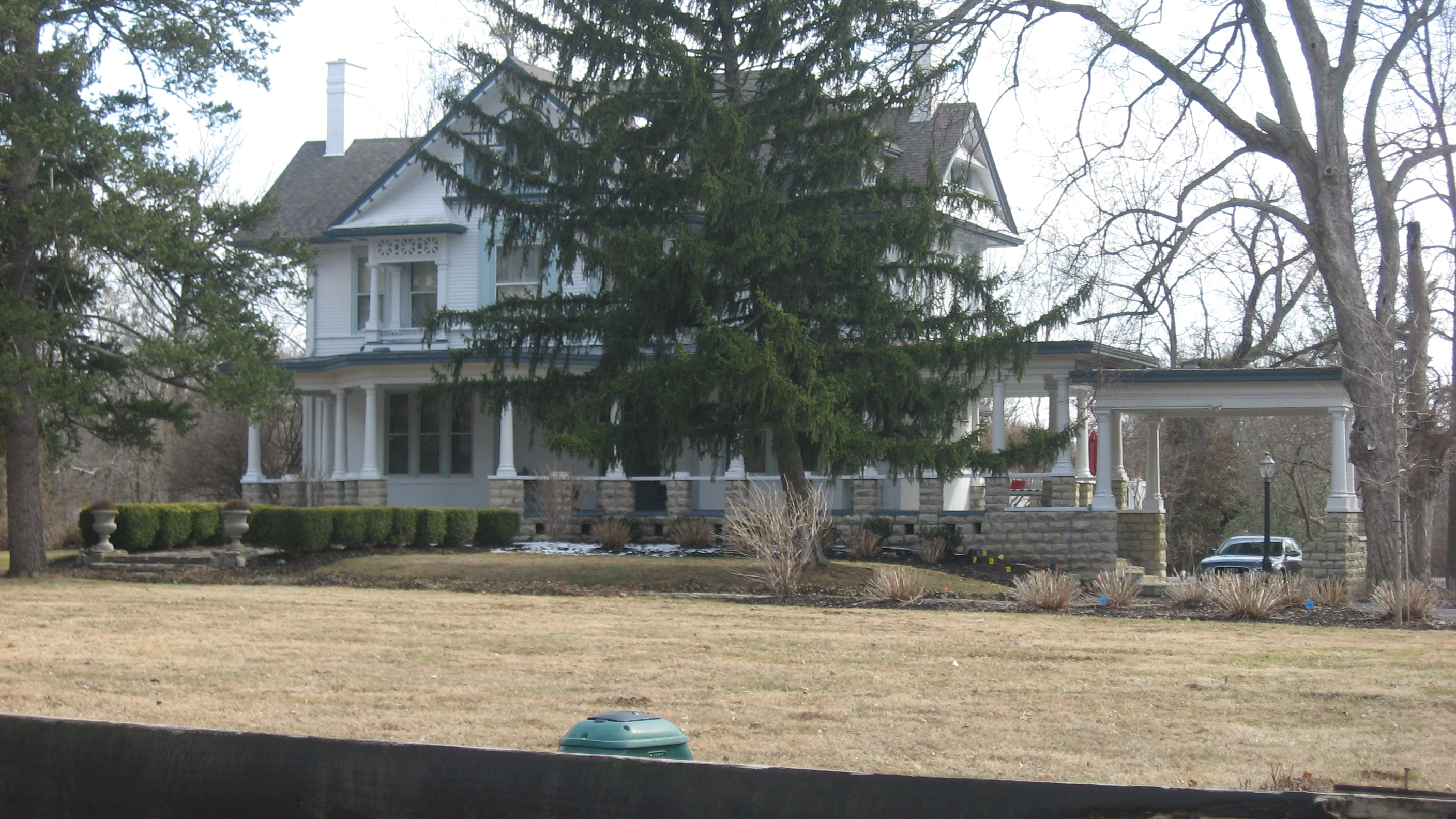 Eastern side and front of Shallcross, located at 11804 Ridge Road in Anchorage, Kentucky, United States. Built in 1898, it is listed on the National Register of Historic Places.